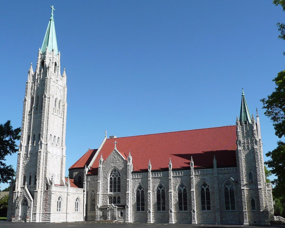 South side of the cathedral.